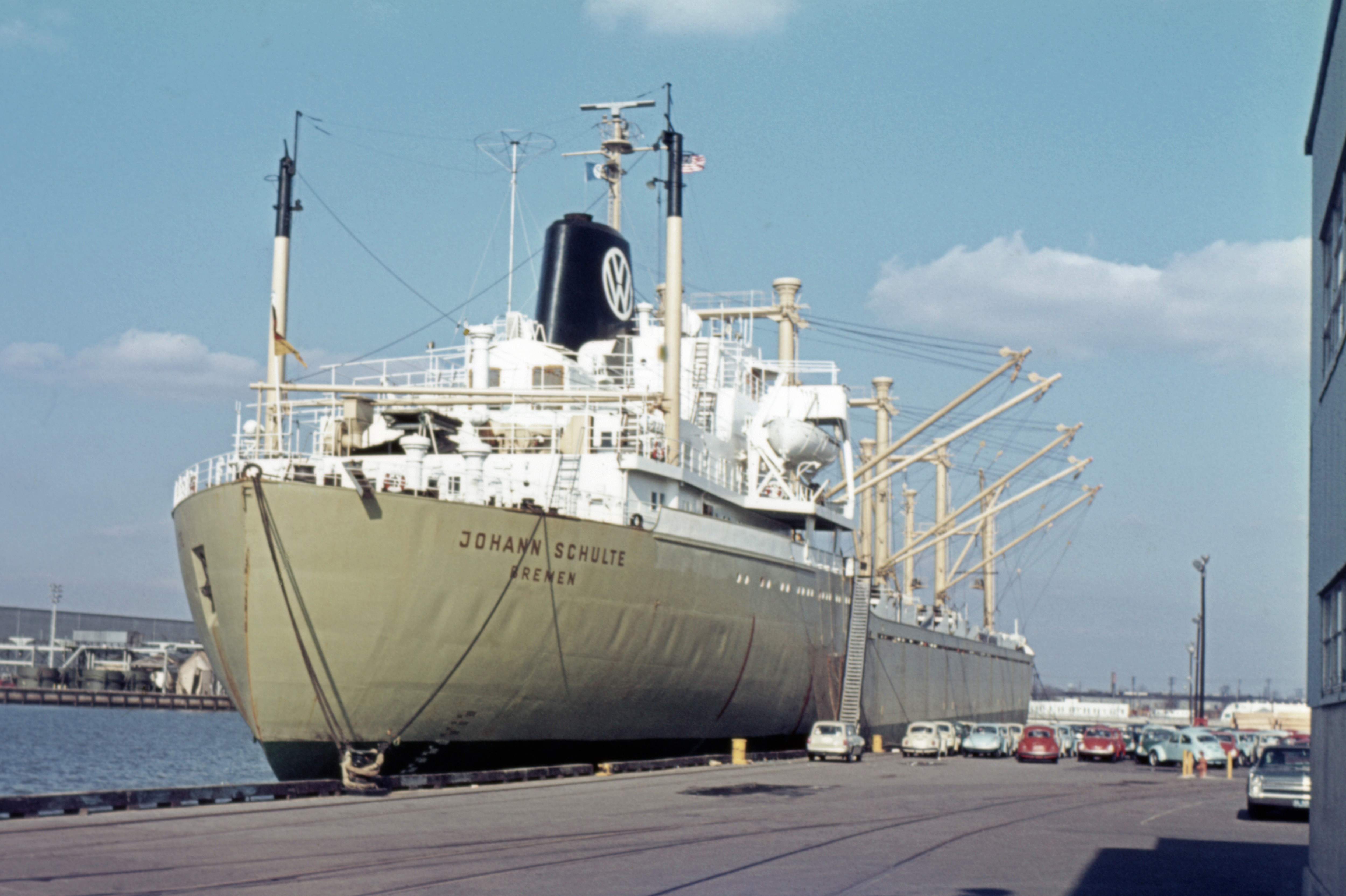 Car carrier Johann Schulte during loading of VW beetles in December 1970 at the Port of Baltimore U.S.